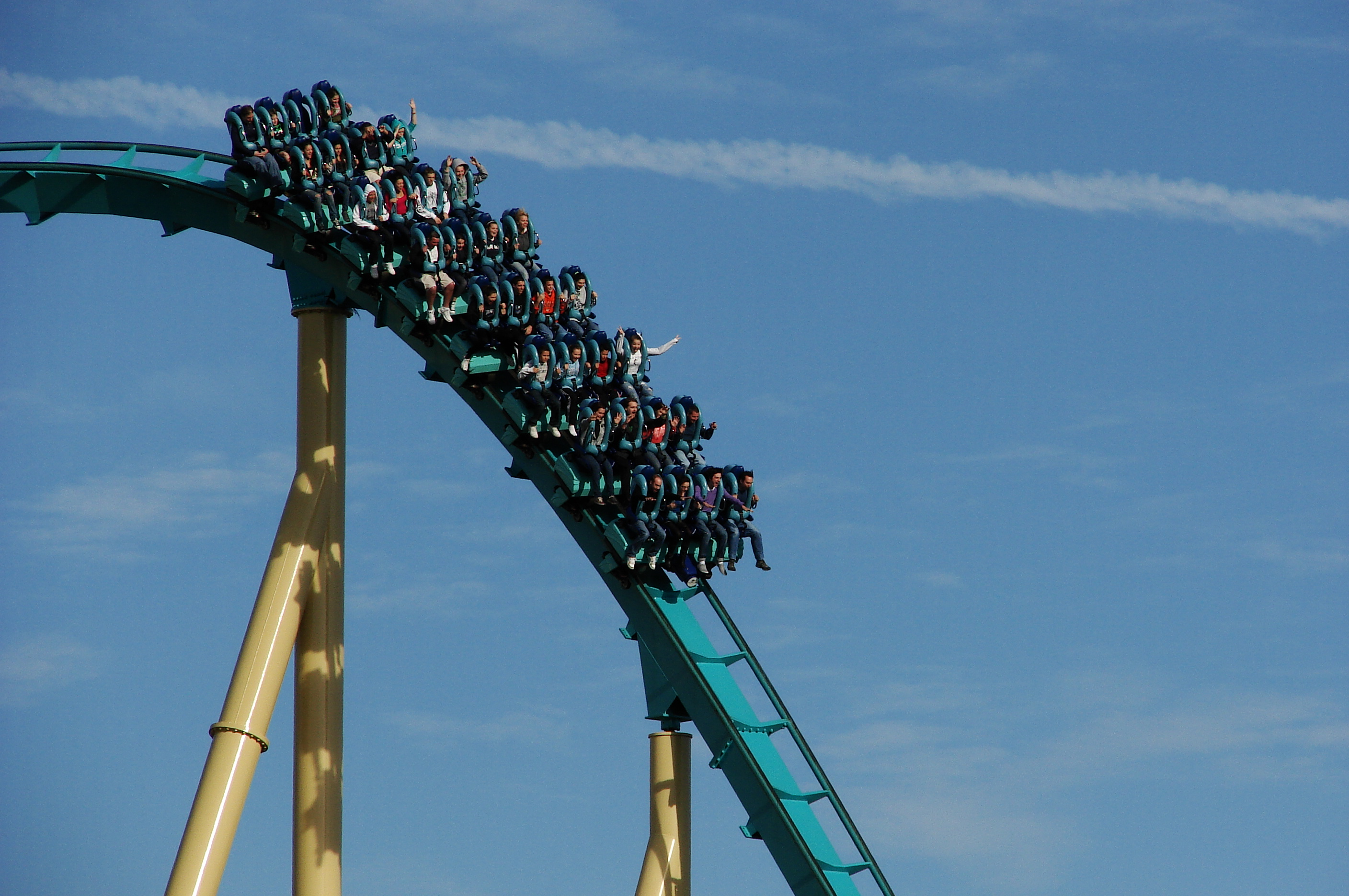 The Kraken roller coaster ride at Seaworld in Orlando, Florida.